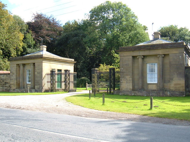 Gateway to Rise Hall, Rise, East Riding of Yorkshire, England.